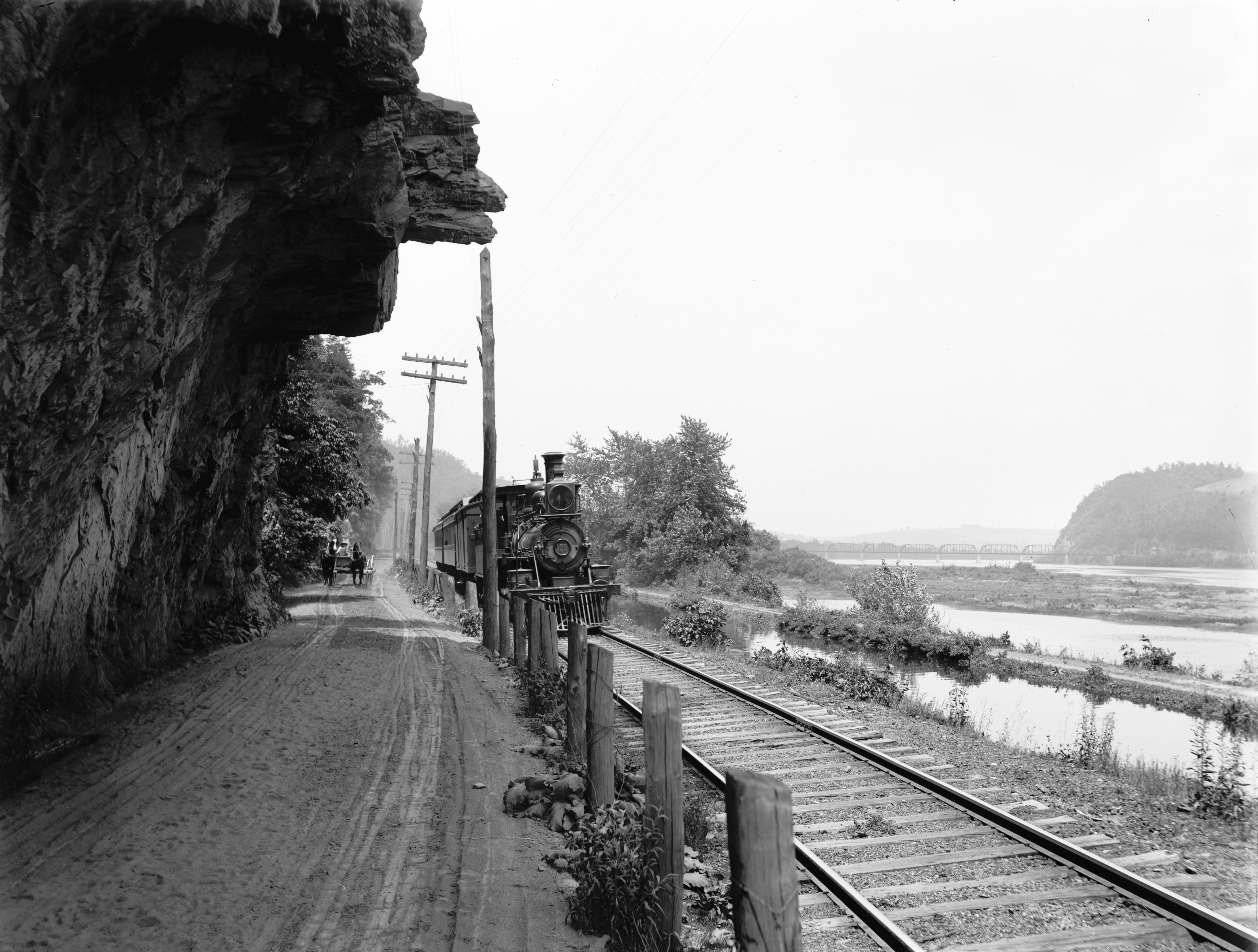 Hanging rock, road, Susquehanna River, and North Branch Canal near Danville, Pennsylvania, in the United States. Call number is "LC-D4-12241 [P&P]"; original title is "Hanging rock on the Susquehanna near Danville, Pa."